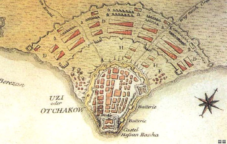 The plan of turkish fortress Ochakov assaulted by Russian army 6(17).12.1788